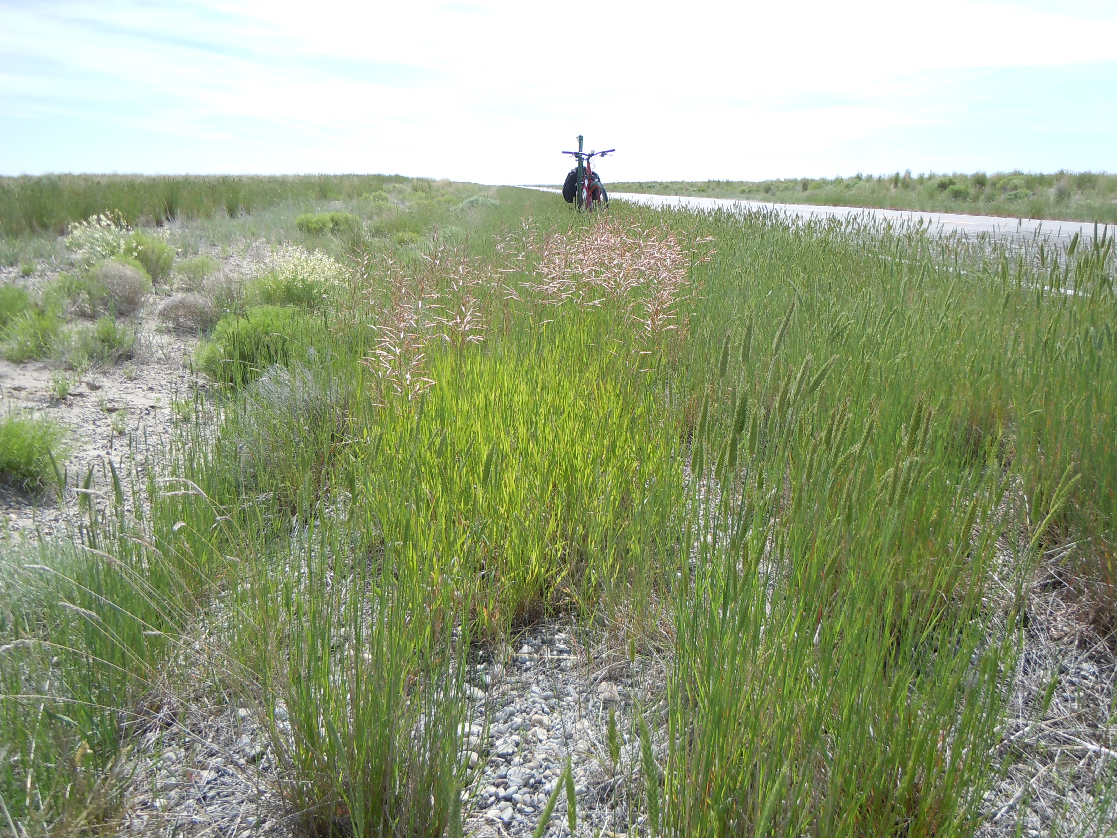 Smooth brome is more likely to be found immediately adjacent to the road that just away from it, indicating a need for more moisture than is generally available in this region.